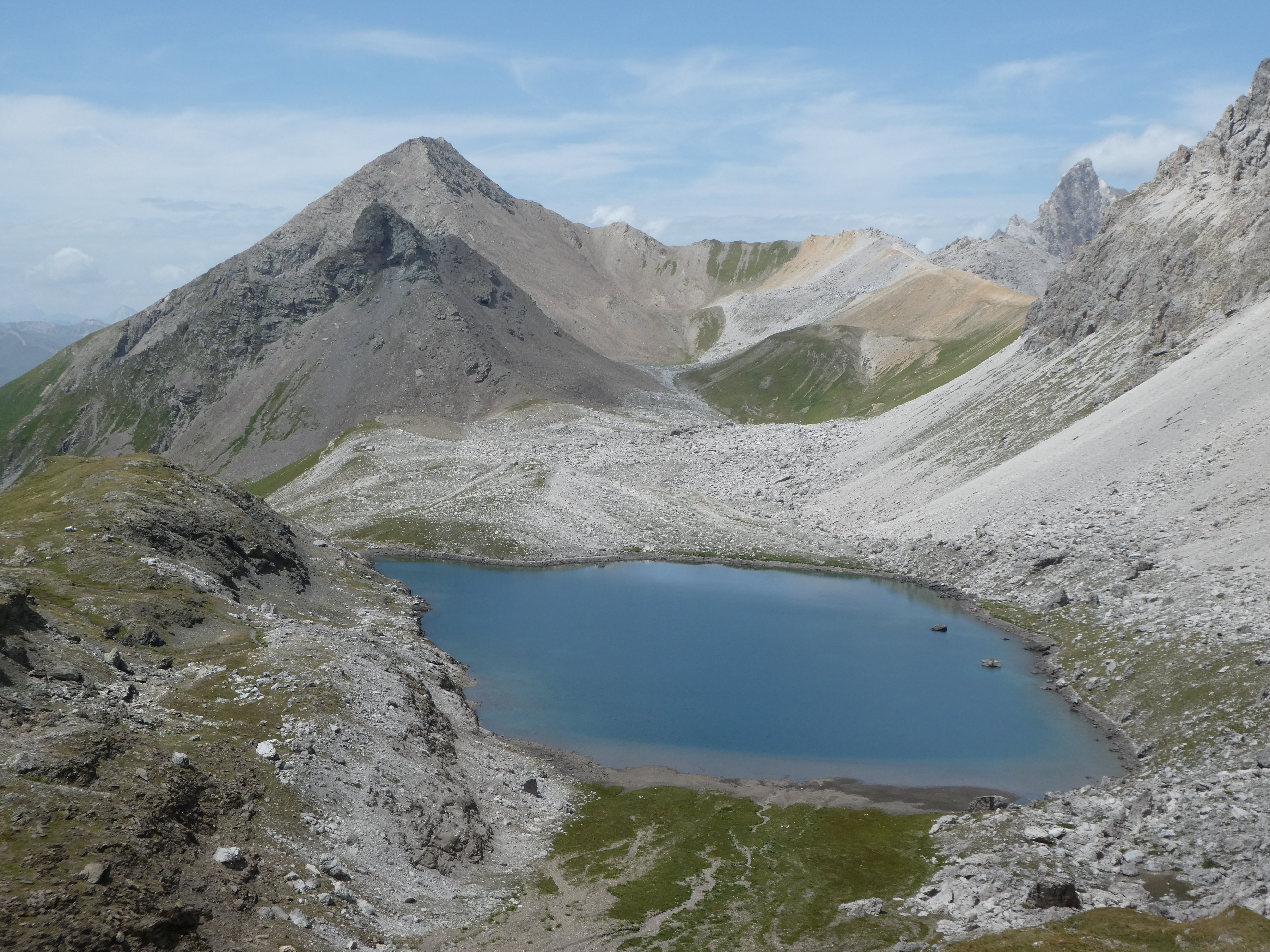 Lai Grond, in the background Piz Furnatsch, Pizza Grossa and Cotschen (Surses, Grison, Switzerland)